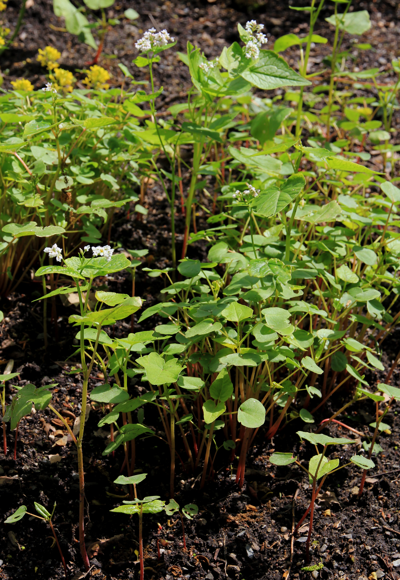 Plants Buckwheat, (Fagopyrum esculentum) from the Botanical Gardens of Charles University, Prague, Czech Republic